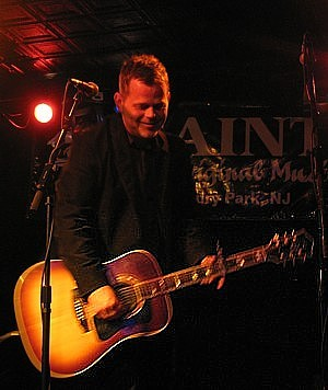 Matthew Ryan at The Saint, Asbury Park, NJ, March 2011.